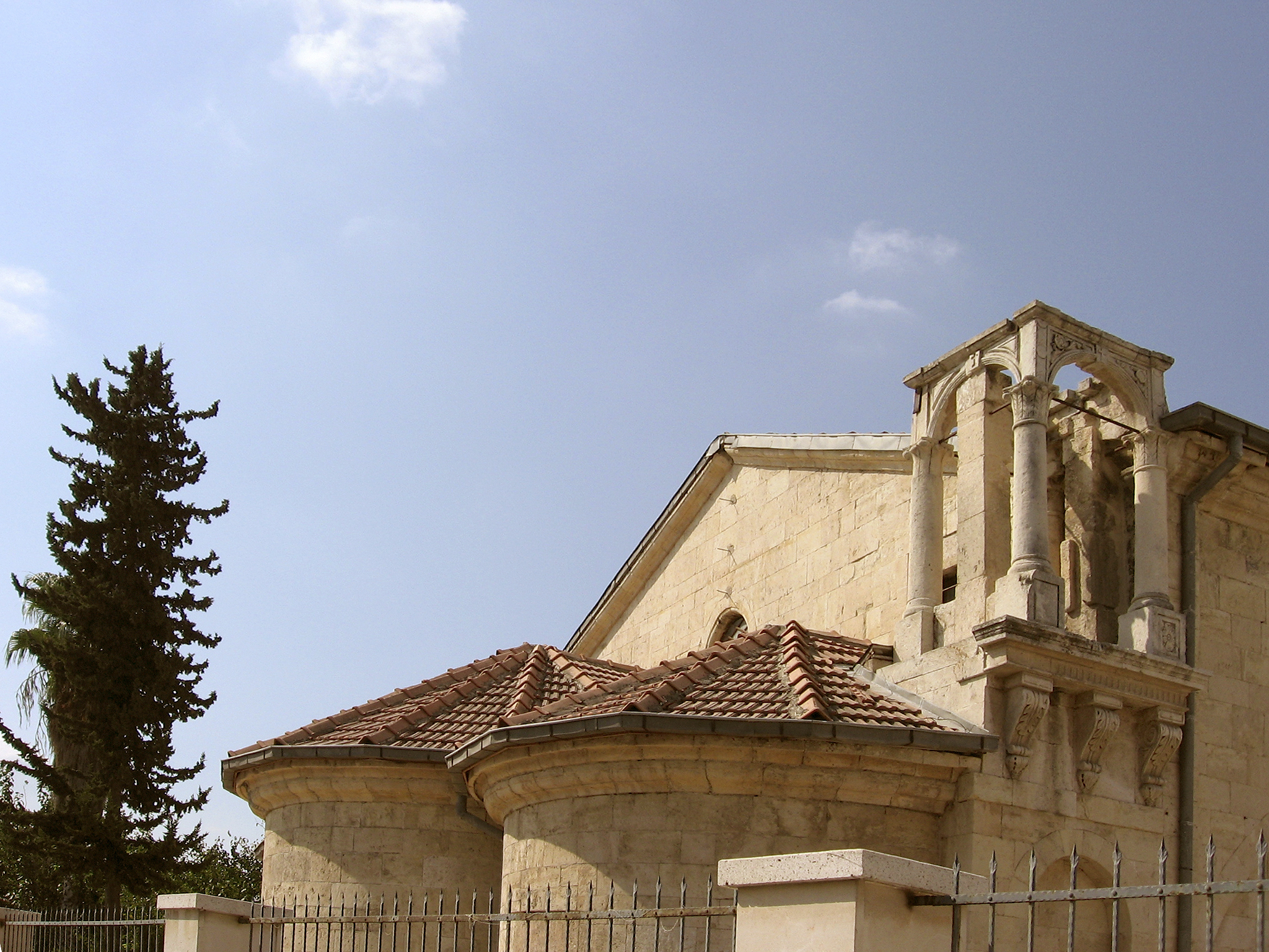 Church of St. Paul of Tarsus in Tarsus, Turkey is located in the center of Tarsus, the birth place of St.Paul. It is managed by Italian sisters from a Catholic order. It is thought that it is constructed during the 11th and 12th centuries AD. The church and the surroundings are on the UN World Heritage Tentative List.